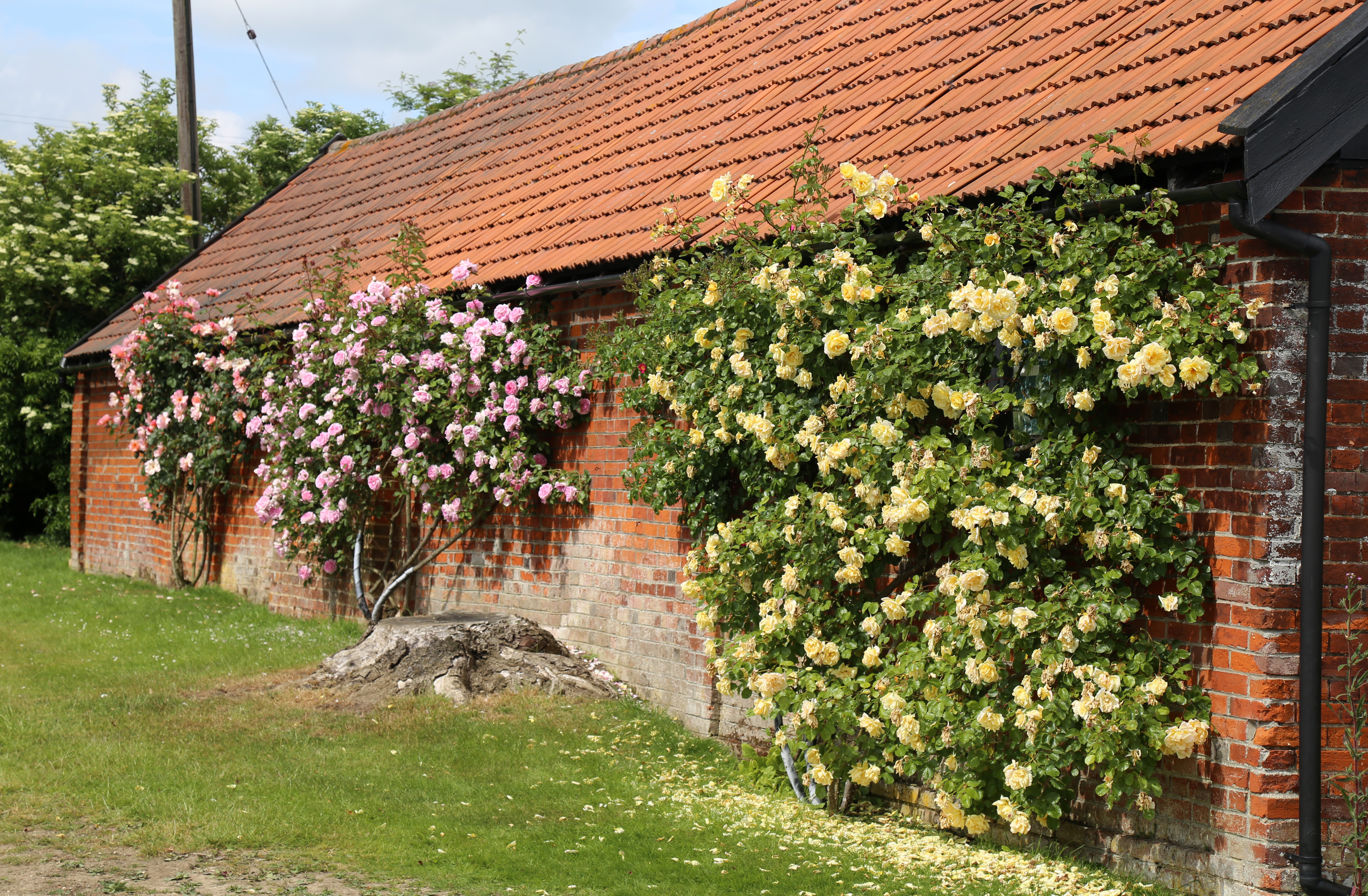 Tiled-roof and brick barn with trained climbing roses at Mashbury, Essex, England